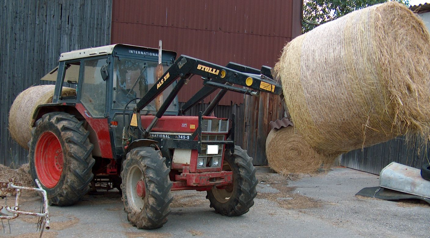 International 745-S tractor with Stoll front loader and round bales